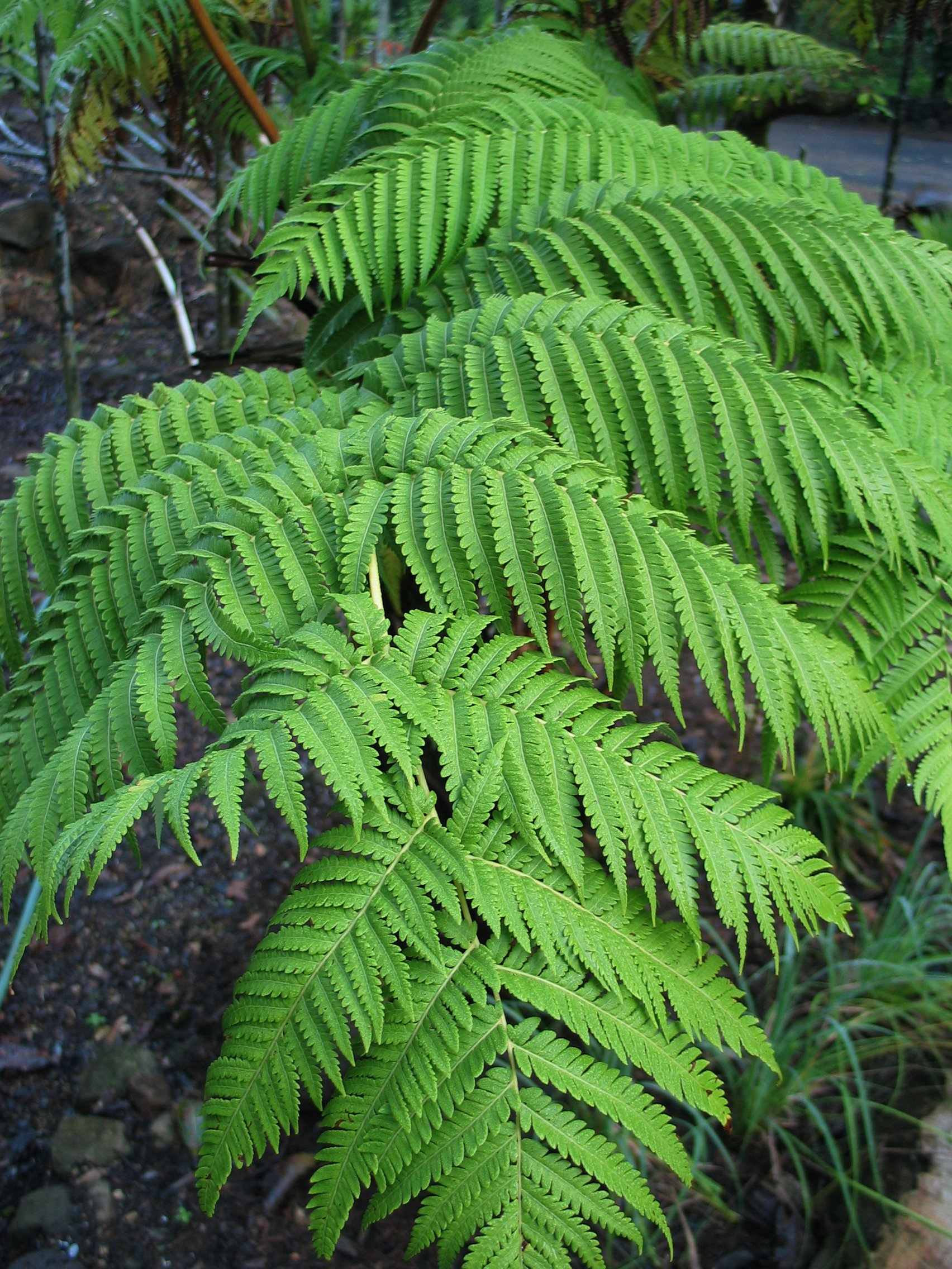 Hāpuʻu or Hāpuʻu pulu Cibotiaceae Endemic to the Hawaiian Islands Oʻahu (Cultivated) NPH00001